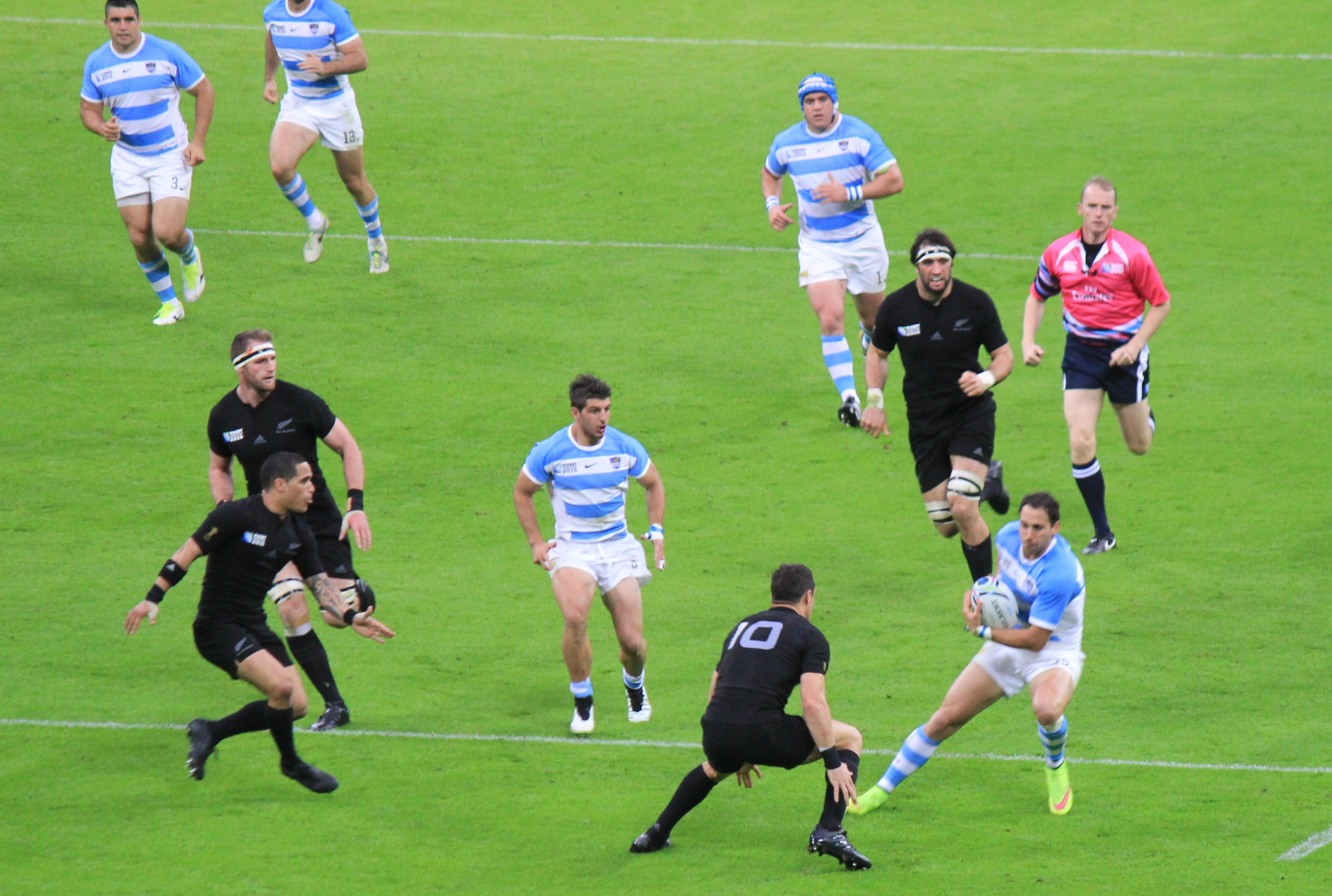 15-09 RWC New Zealand vs Argentina 069